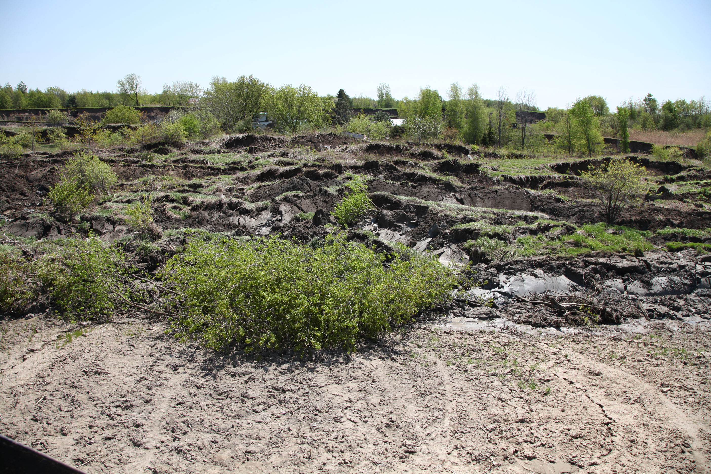 A landslide affecting a road and a residence in Saint-Jude, Les Maskoutains, Quebec, Canada.